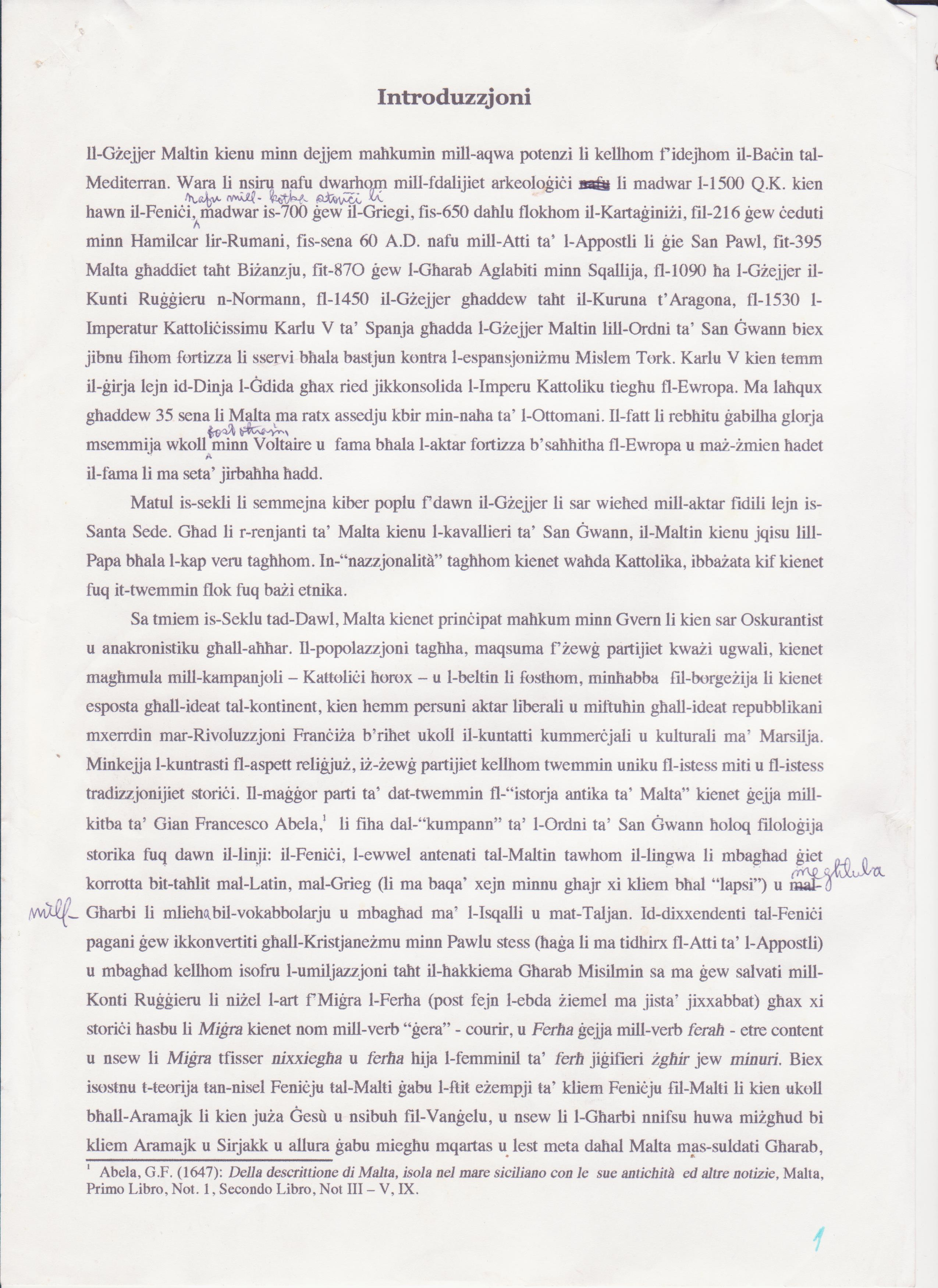 When Bonaparte a' Malte was being translated, Frans Sammut rewrote huge chunks of the original Maltese text.